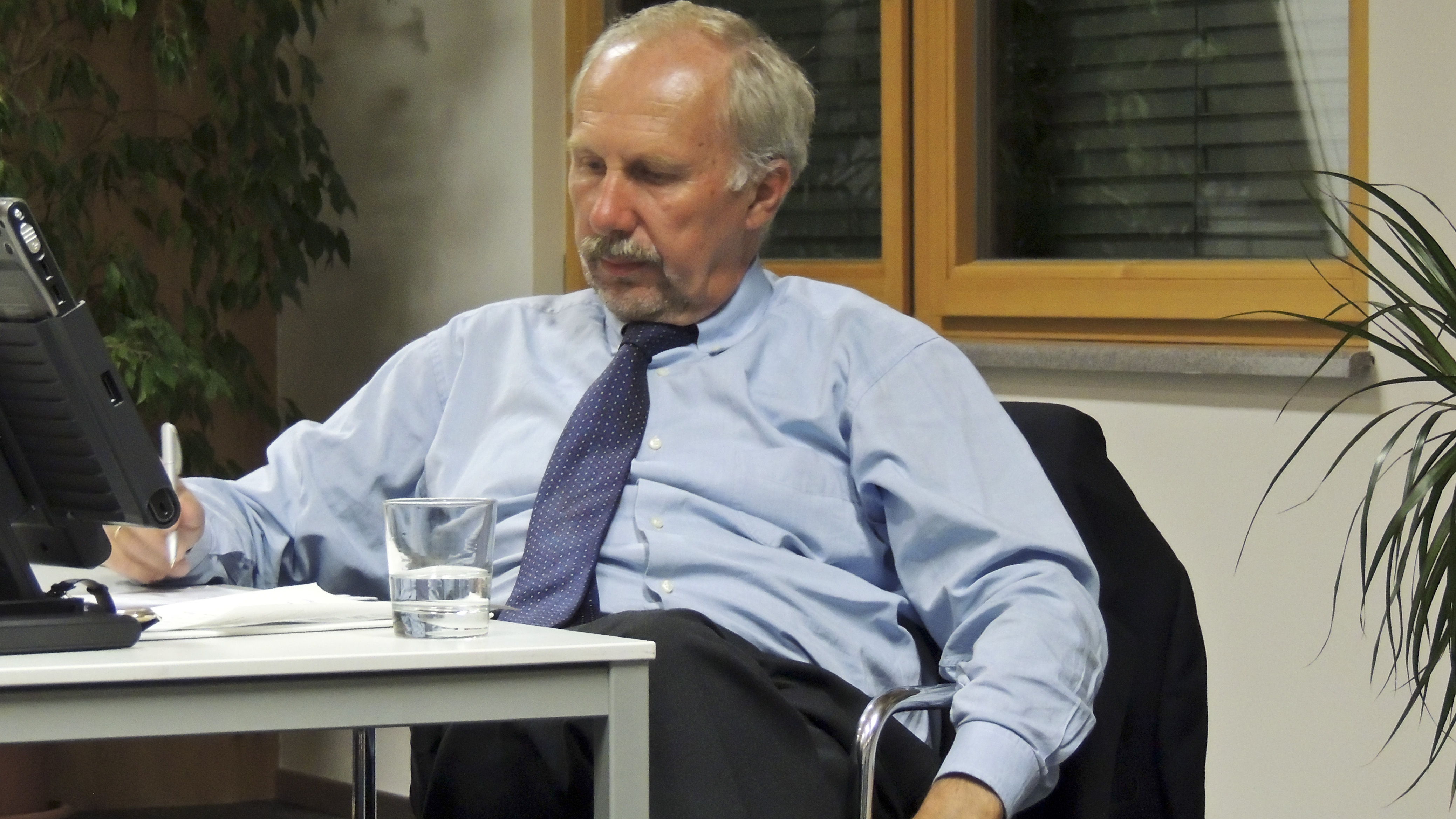 Univ.-Prof. Dr. Ewald Nowotny - Austrian Nationalbank